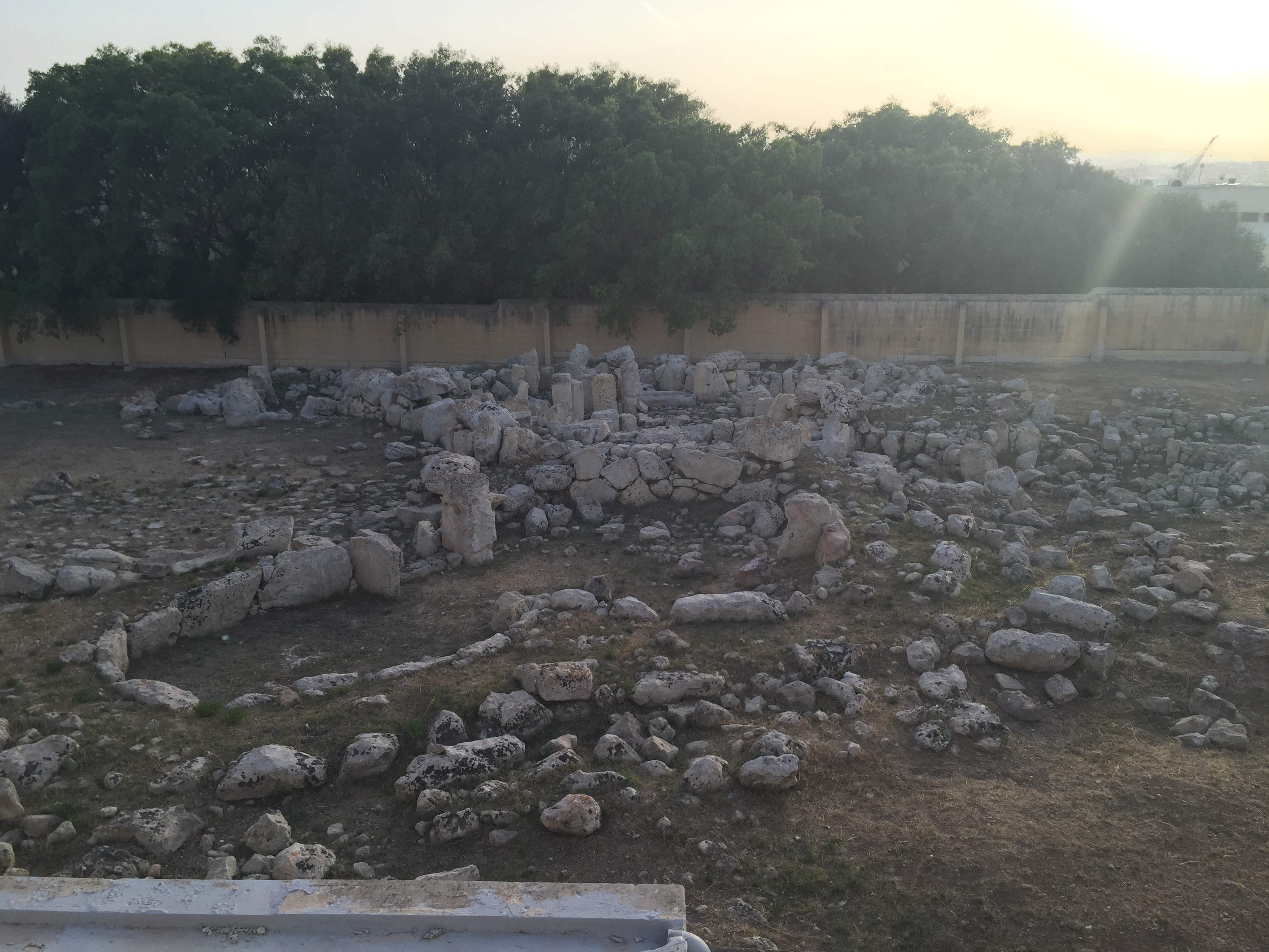 This media is about Maltese cultural property with inventory number 00045.